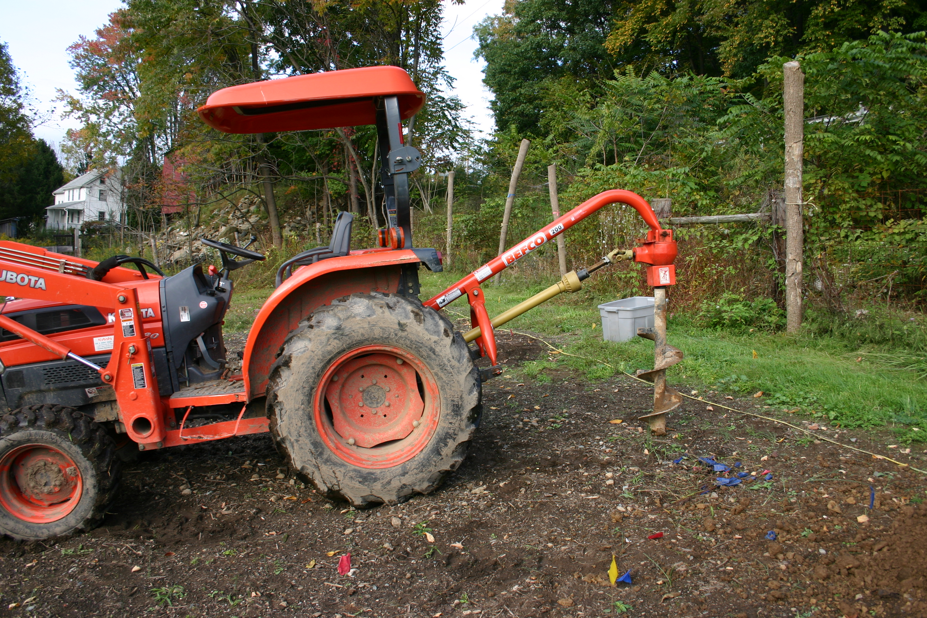 Kubota tractor with Befco Auger on three-point hitch.